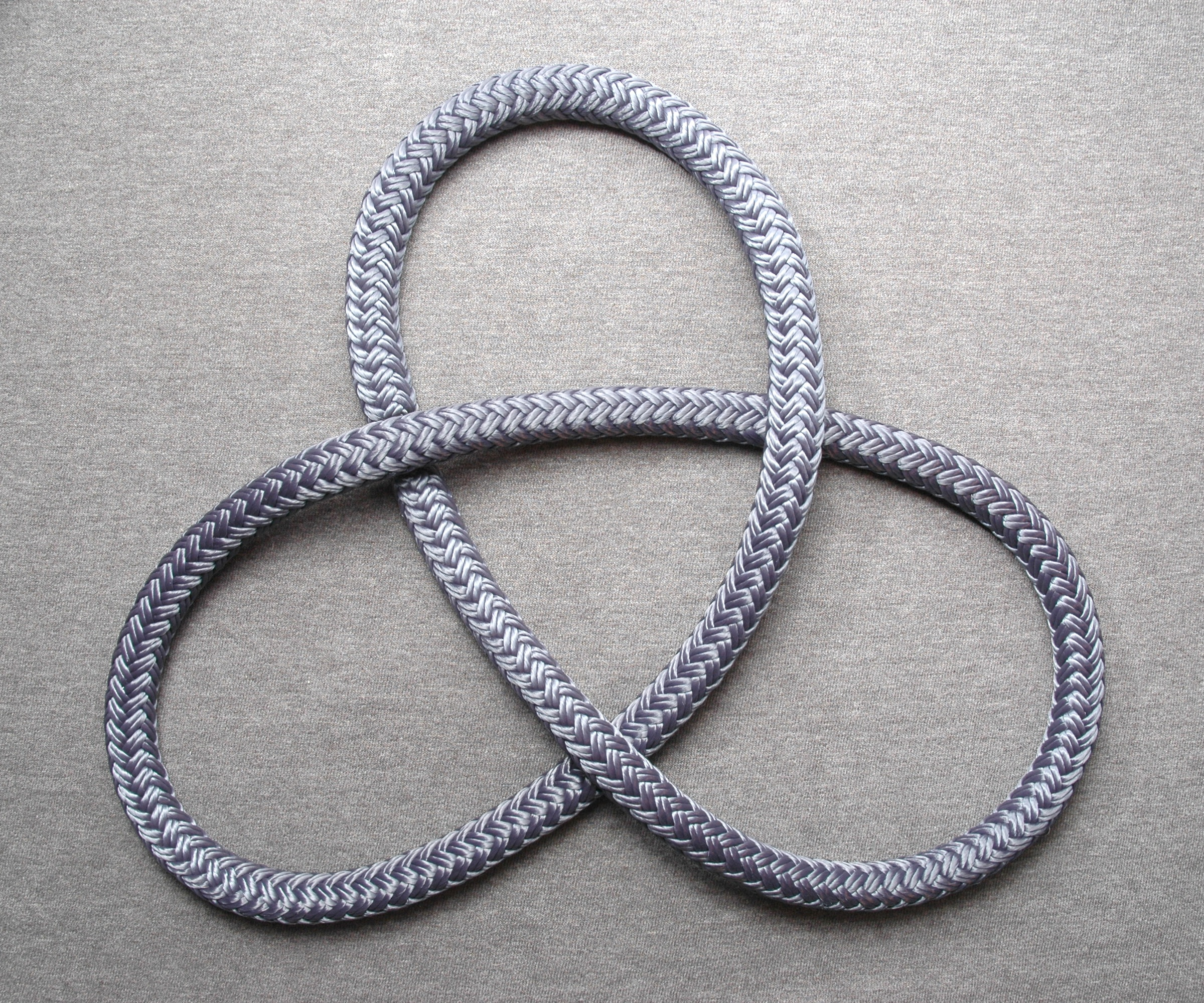 A right-handed trefoil knot